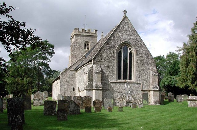 Holy Rood parish church, Shilton, Oxfordshire, seen from the southeast